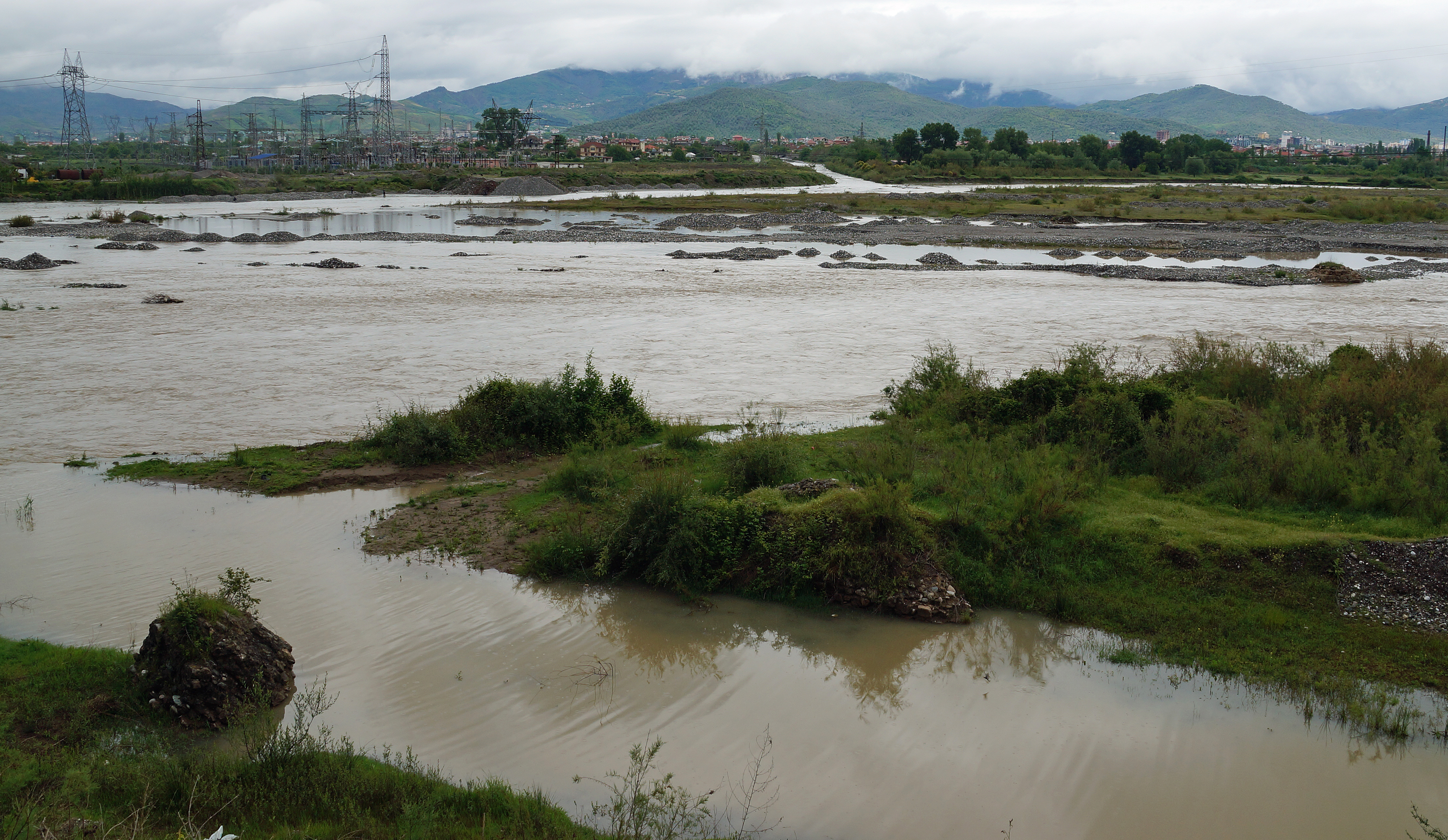 Shkumbin River in the West of the city of Elbasan, Albania, with ruins of the ancient Roman bridge of Topçias. Some pillars on both sides of the branch of the river in the front, and some pillars of the part of the bridge that was added later in the background (to the right). Sites of gravel mining and power poles along the river.